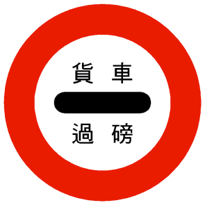 Taiwanese Regulatory Sign R6: Weigh Station